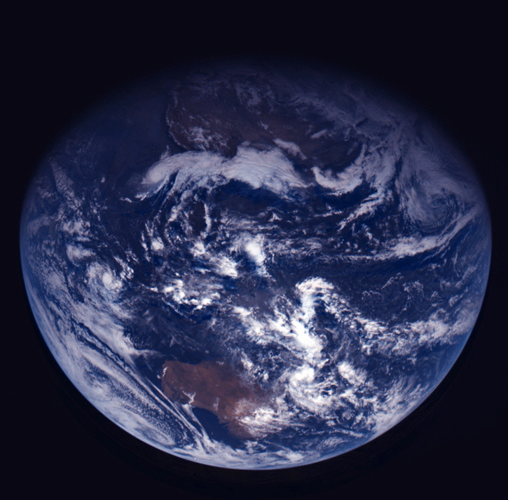 After its closest approach to Earth, Rosetta looked back and took a number of images using the OSIRIS Narrow Angle Camera (NAC). This particular image was acquired 15 November 2007 at 03:30 CET. The image is a colour composite of the NAC Orange, Green and Blue filters. At the bottom, the continent of Australia can be seen clearly.